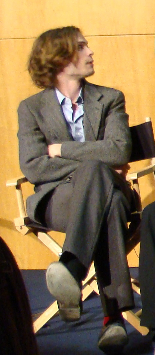 Matthew Gray Gubler 2008.